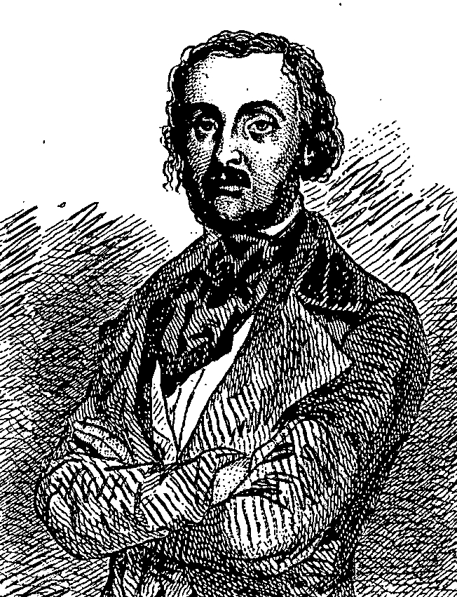 Portrait of French writer and literary historian Philarète Chasles (1798-1873, published in "Philarète Chasles" by Eugène de Mirecourt (1857).